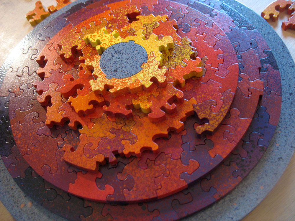 A custom made three dimensional puzzle, made by Chris Yates studio.